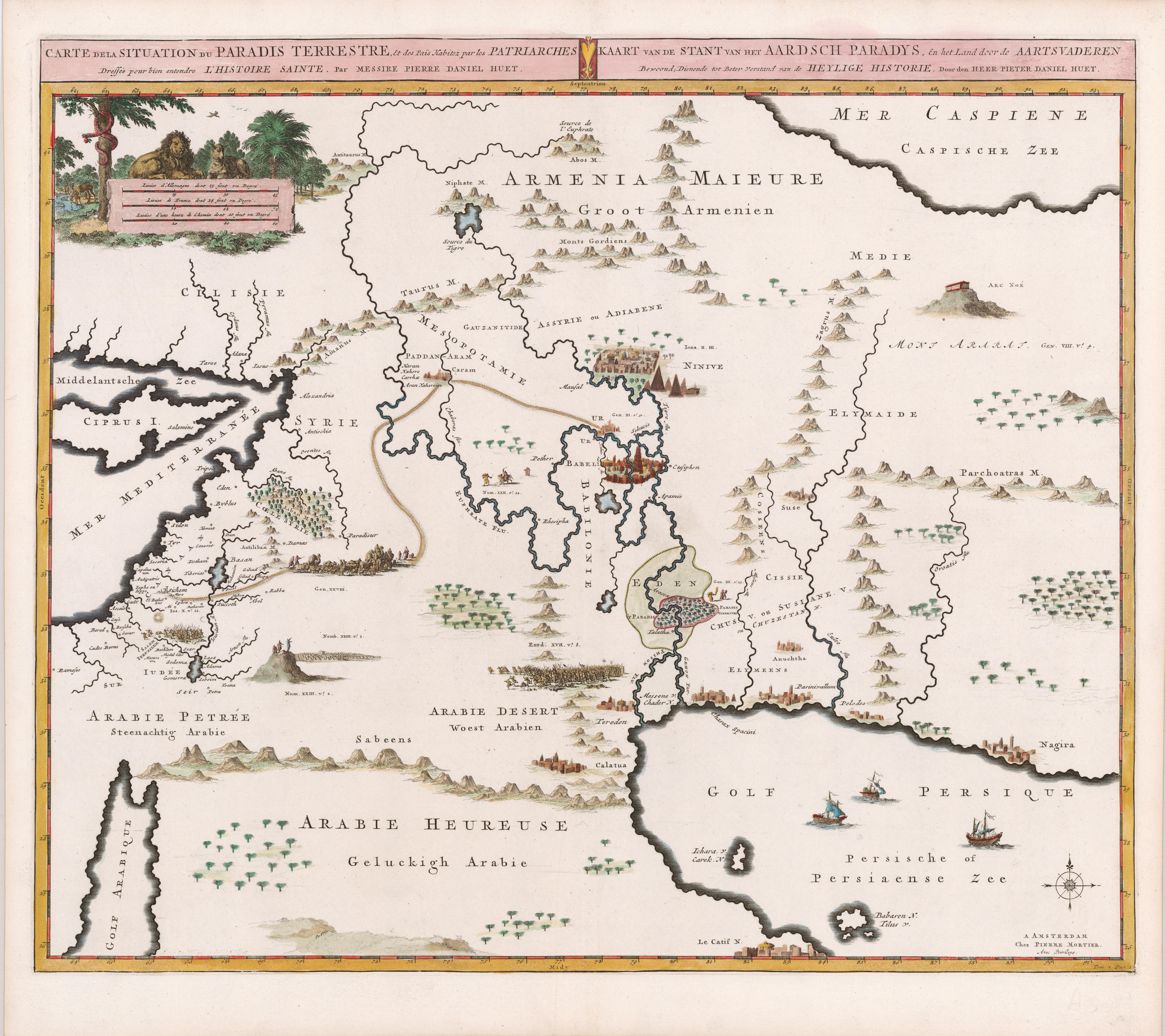 The map has two captions reading essentially the same in French and Dutch. The French reads: "Map of the location of the earthly paradise, and of the country inhabited by the patriarchs, laid out for the better understanding of sacred history, by M. Pierre Daniel Huet"